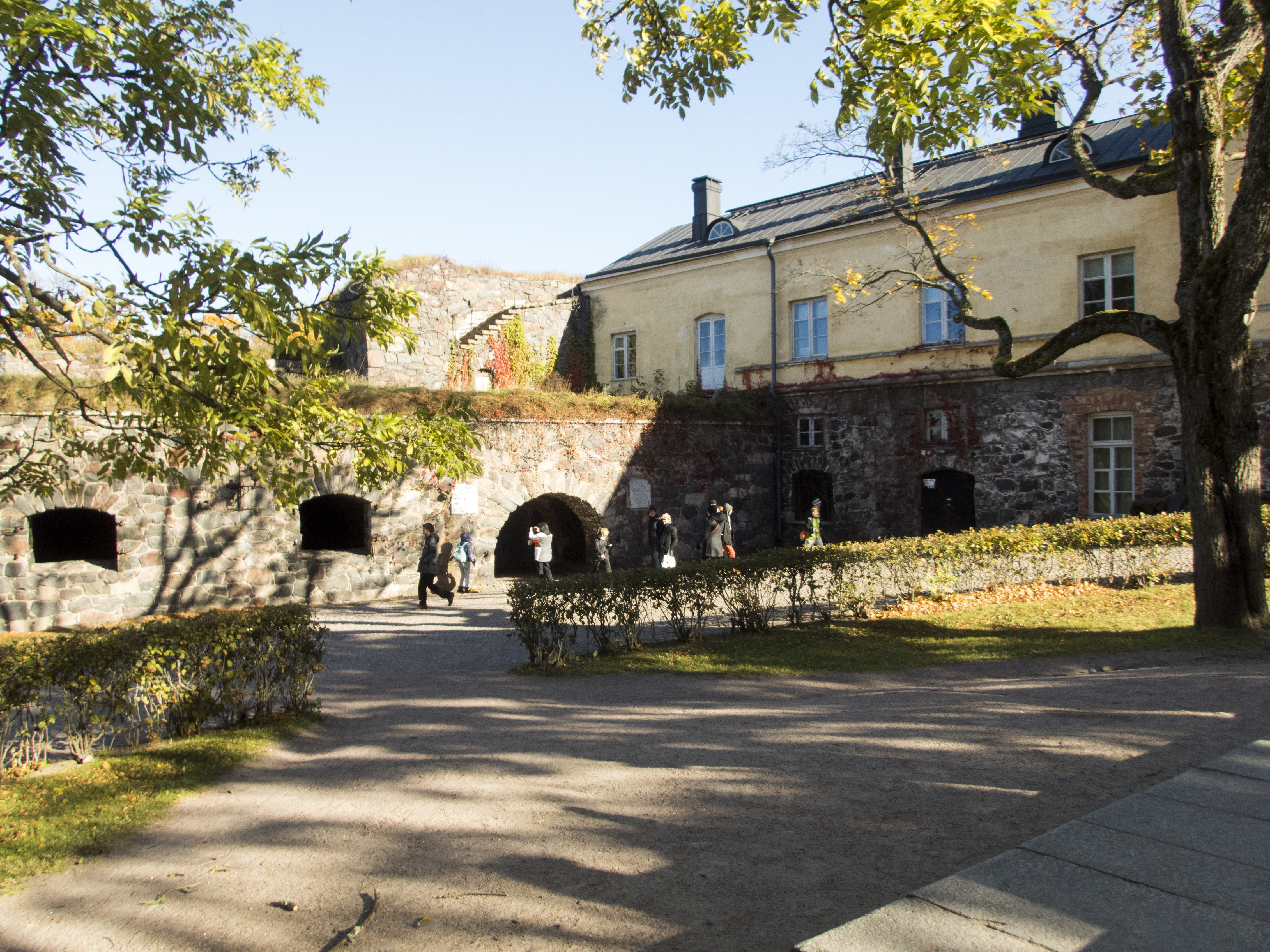 Sveaborg,Stora borggården